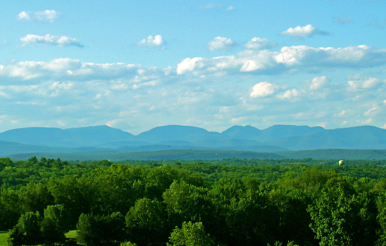 Photographed by Daniel Case from the Shawangunks below Mohonk Mountain House 2006-08-15.